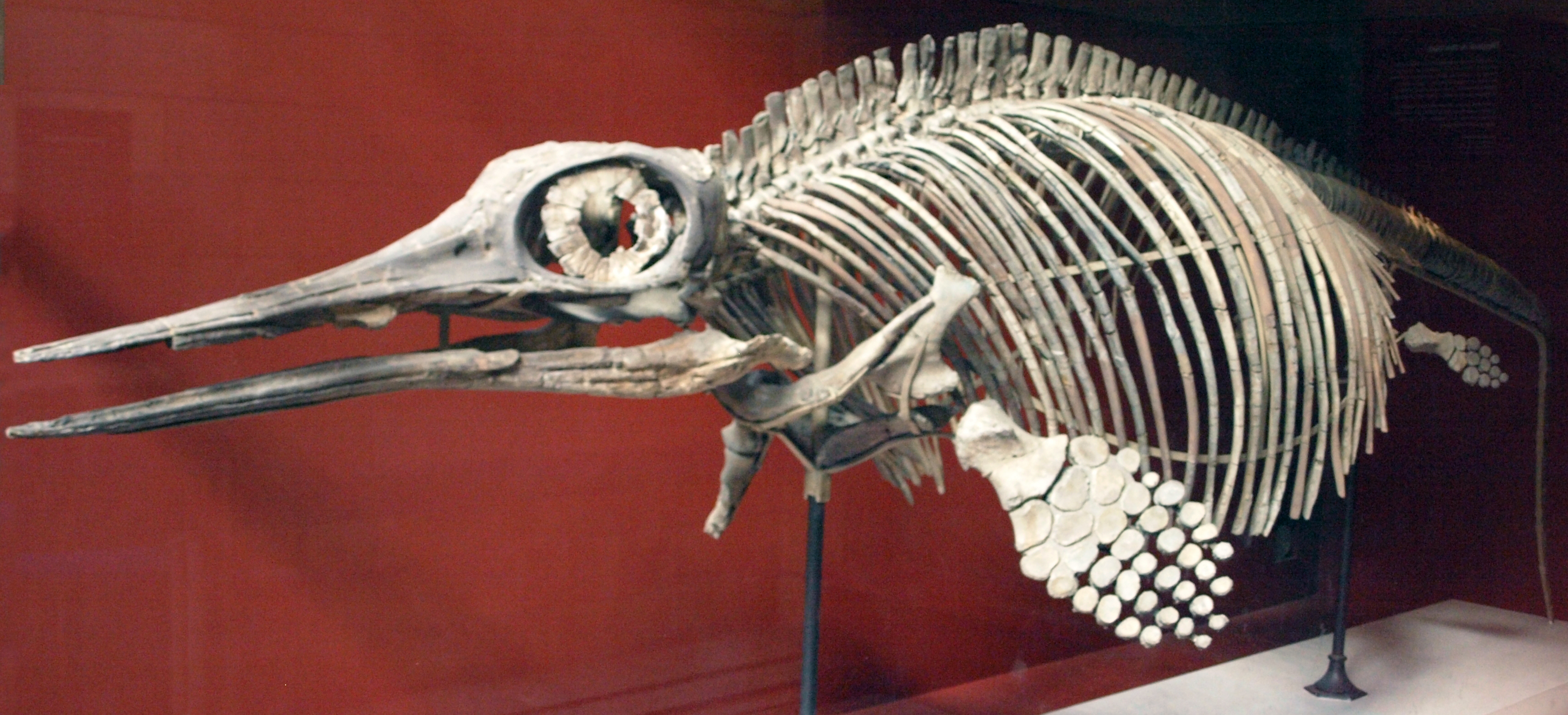 Ophthalmosaurus icenius, from the time of the Callovian period of the Middle Jurassic. This specimen was found in Oxford Clay, in Peterborough, England. Photo lightly touched up to remove lighting flares.